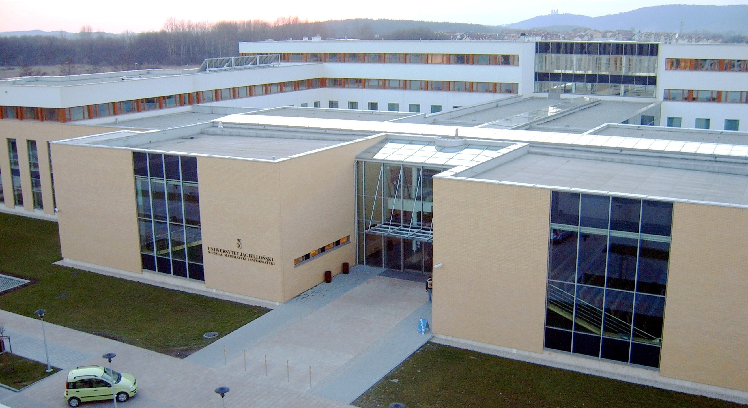 Campus of Jagiellonian University; Kraków